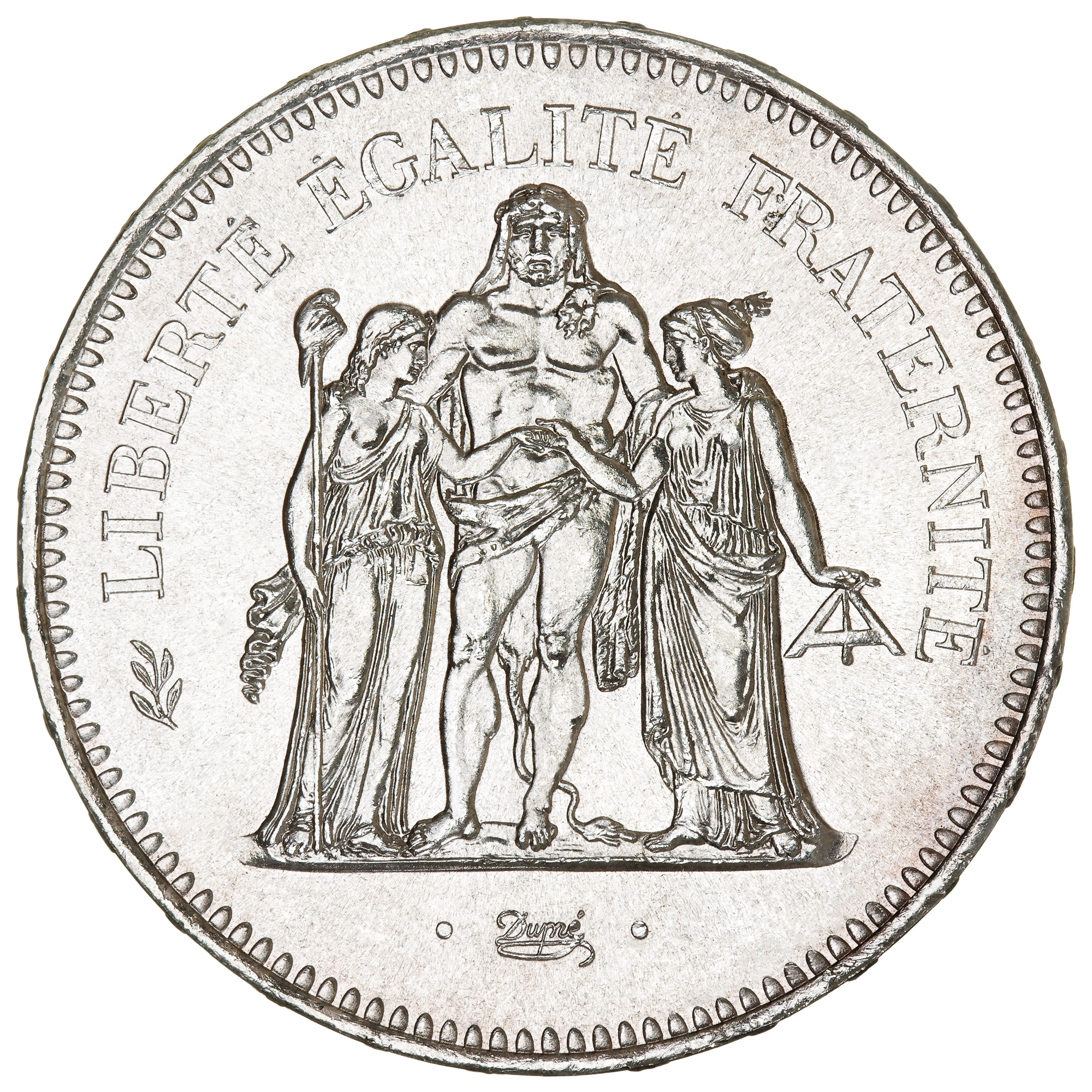 Obverse of the 50 French francs Dupré's Hercules type coin, 1978 (F.427/6). Silver, diameter 41 mm, 30 g.